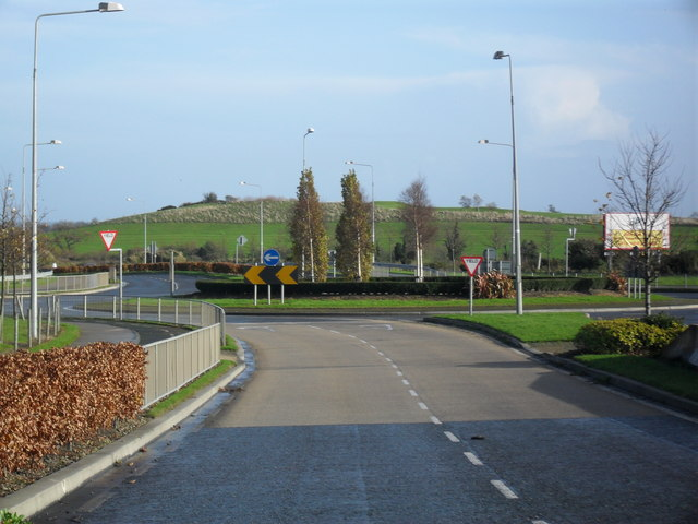 Roundabout at Charlesland, near to Knockroe, Ballynerrin, Ballygannon, Deilgne and na Clocha Liatha, Wicklow, Ireland. Links the Kilcoole-Bray road with an industrial park and provides access to Greystones. Townland of Charlesland.